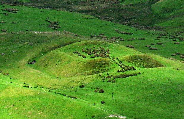 Roman Fortlet near Durisdeer Village as seen from Durisdeer Rig